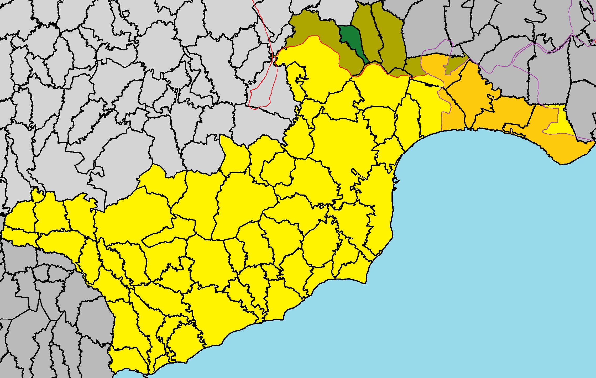 Melouseia in Larnaca District (de jure).